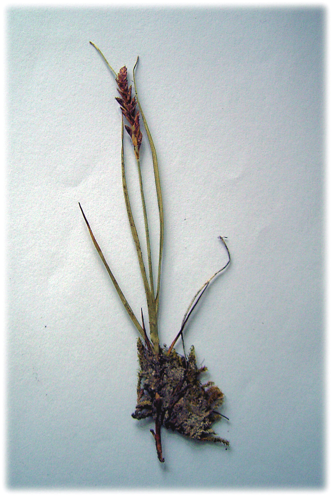 Broad Blysmus (Blysmus compressus), from somewhere near Lake Garda, Italy; Herbarium specimen